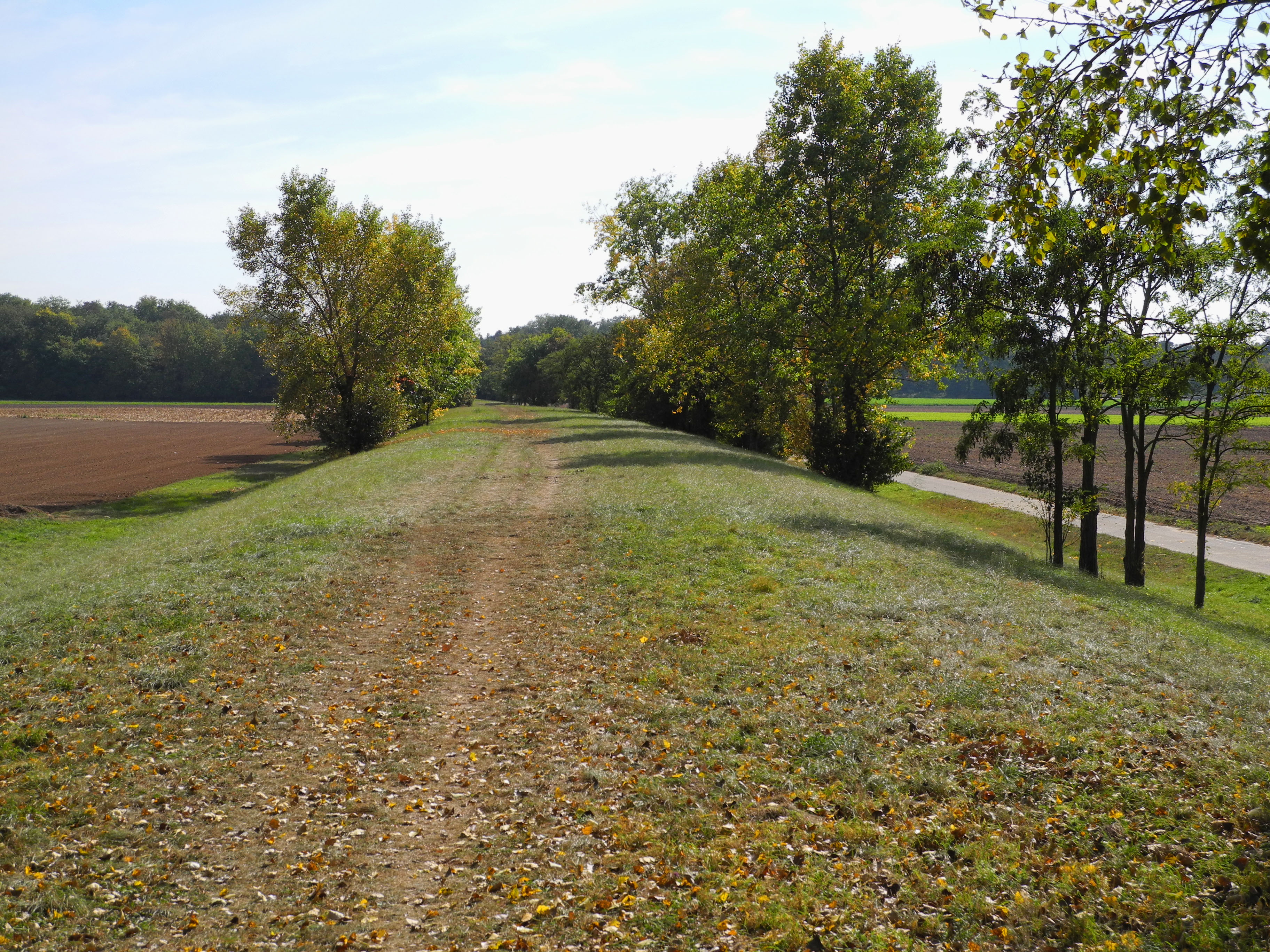 Pfingstbergtunnel, between Mannheim and Schwetzingen viewable as a wall in the landsape